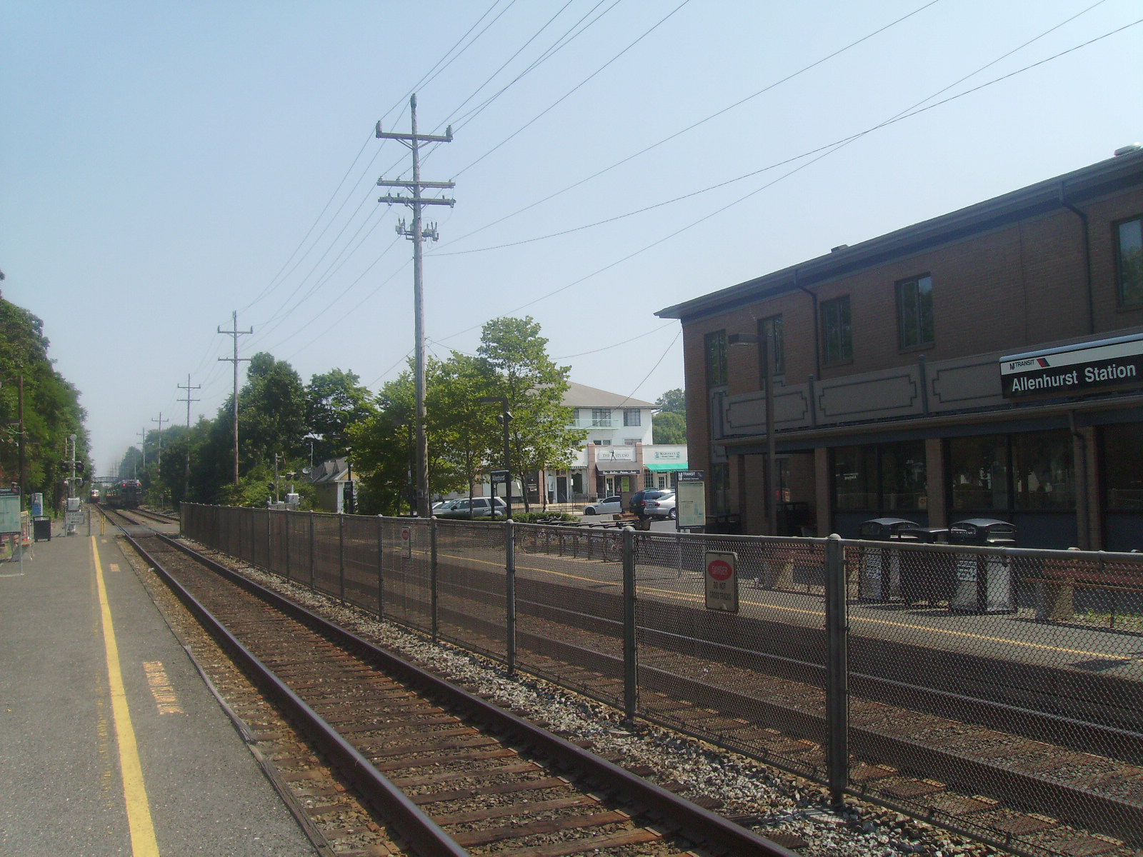 The Allenhurst station of New Jersey Transit in Allenhurst, New Jersey. The Bay Head local heading to Long Branch station has just left and is about to pass the Bay Head local heading to Bay Head.